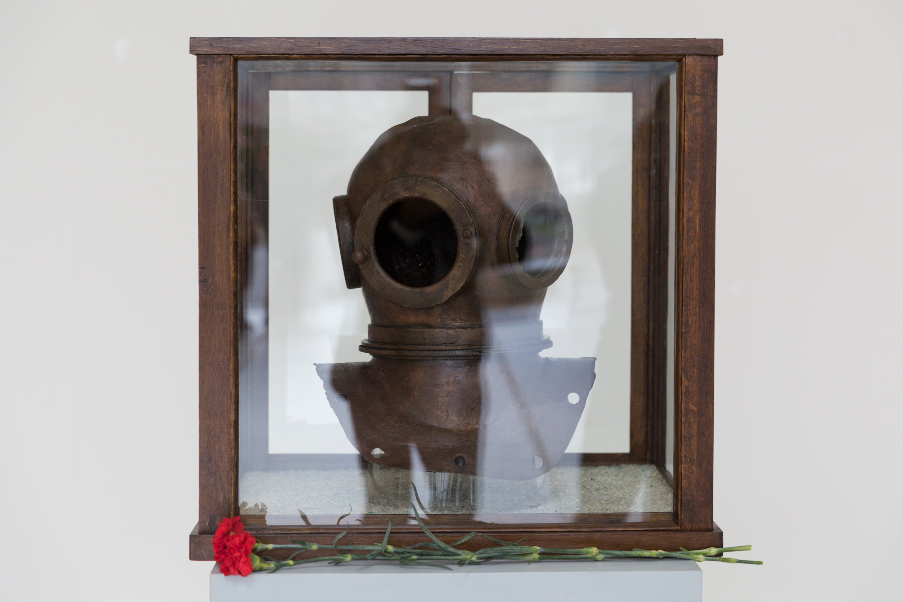 Diving helmet that belonged to Nikita Sergeyevich Myshlyaevsky